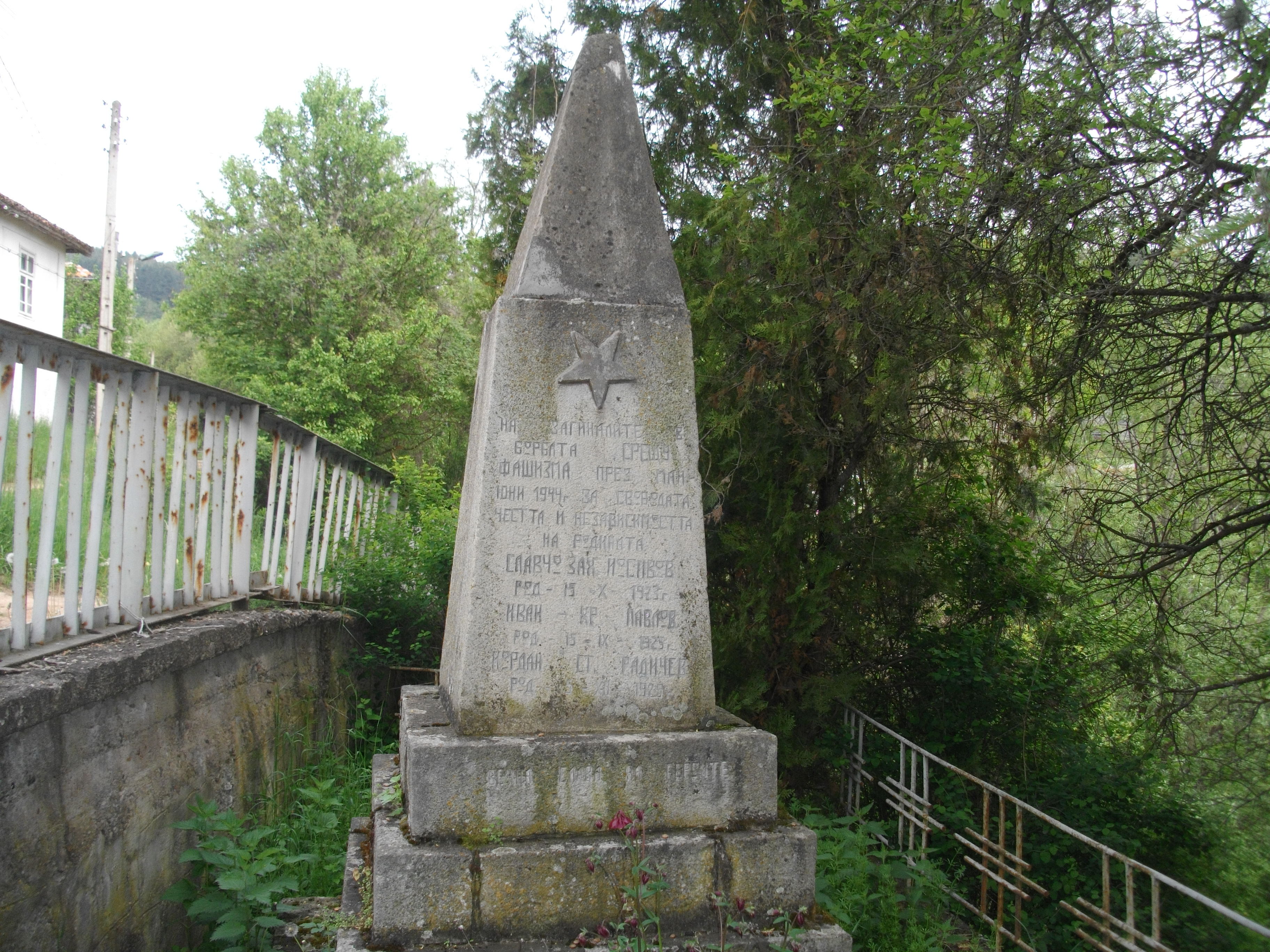 The Monument in Radovo Village, Bulgaria